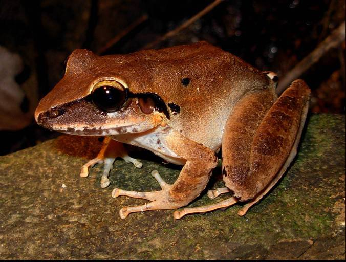 Craugastor raniformis